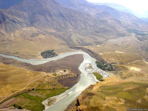 A beautiful view of khwahan county and its two villages kamar & kaji, and River panj!